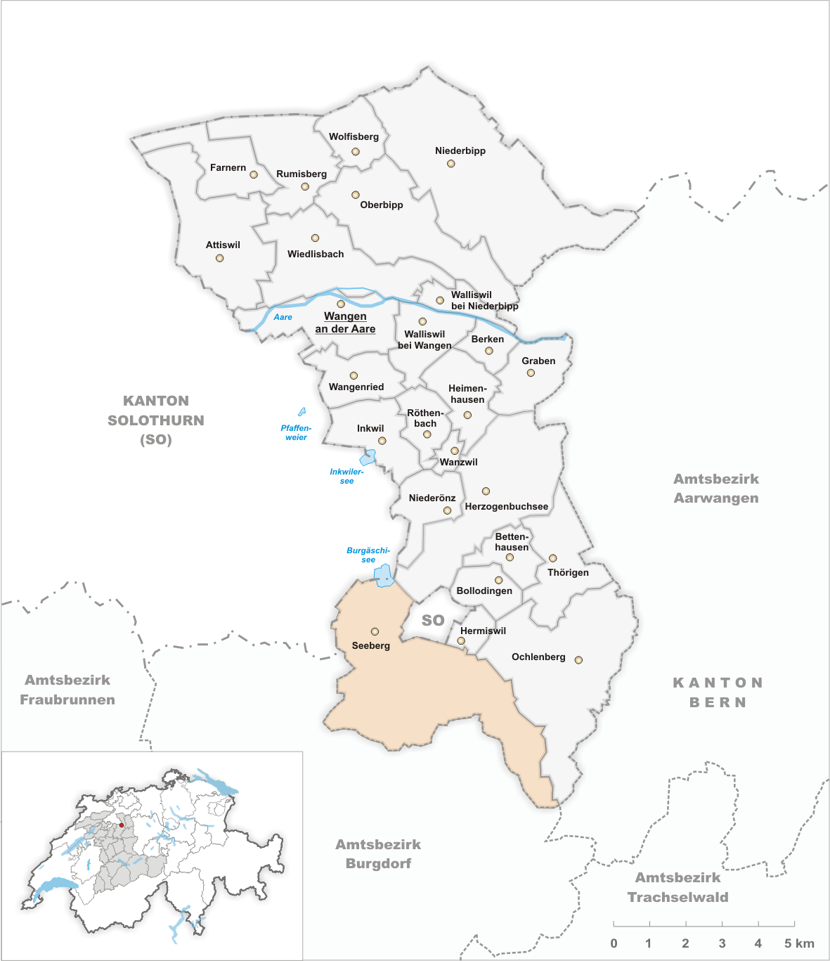 Municipality Seeberg